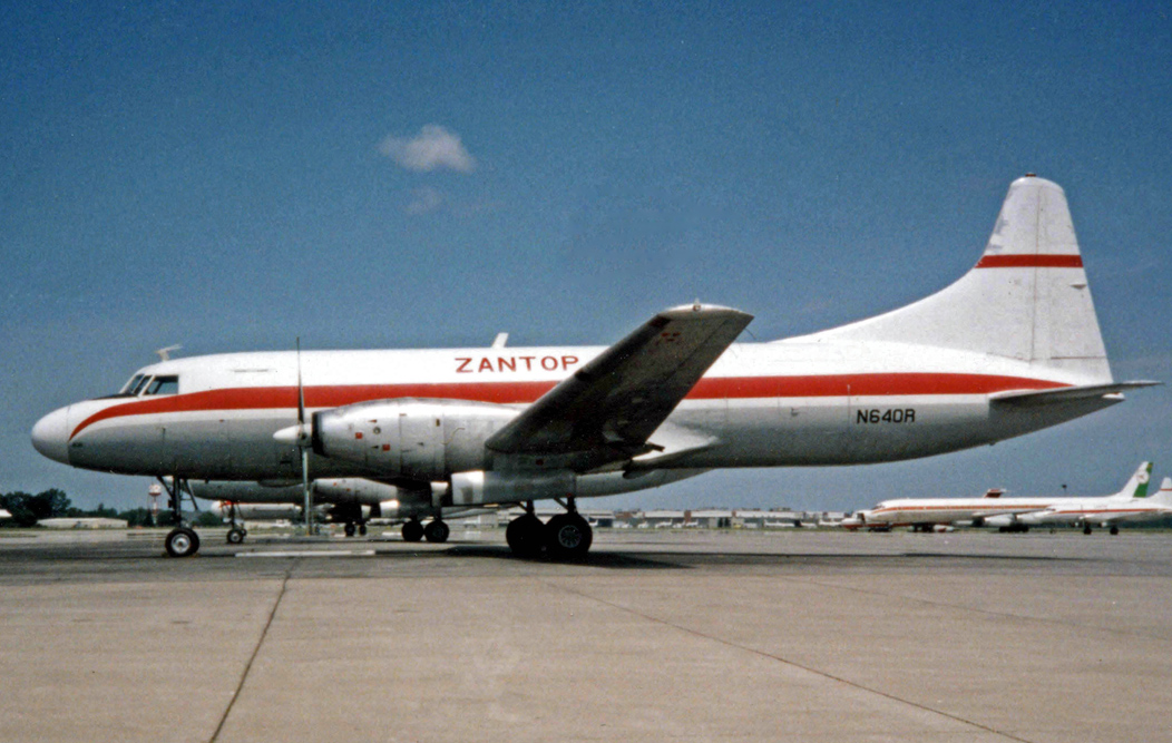 Convair 640F freighter of Zantop International Airlines at Detroit Willow Run Airport